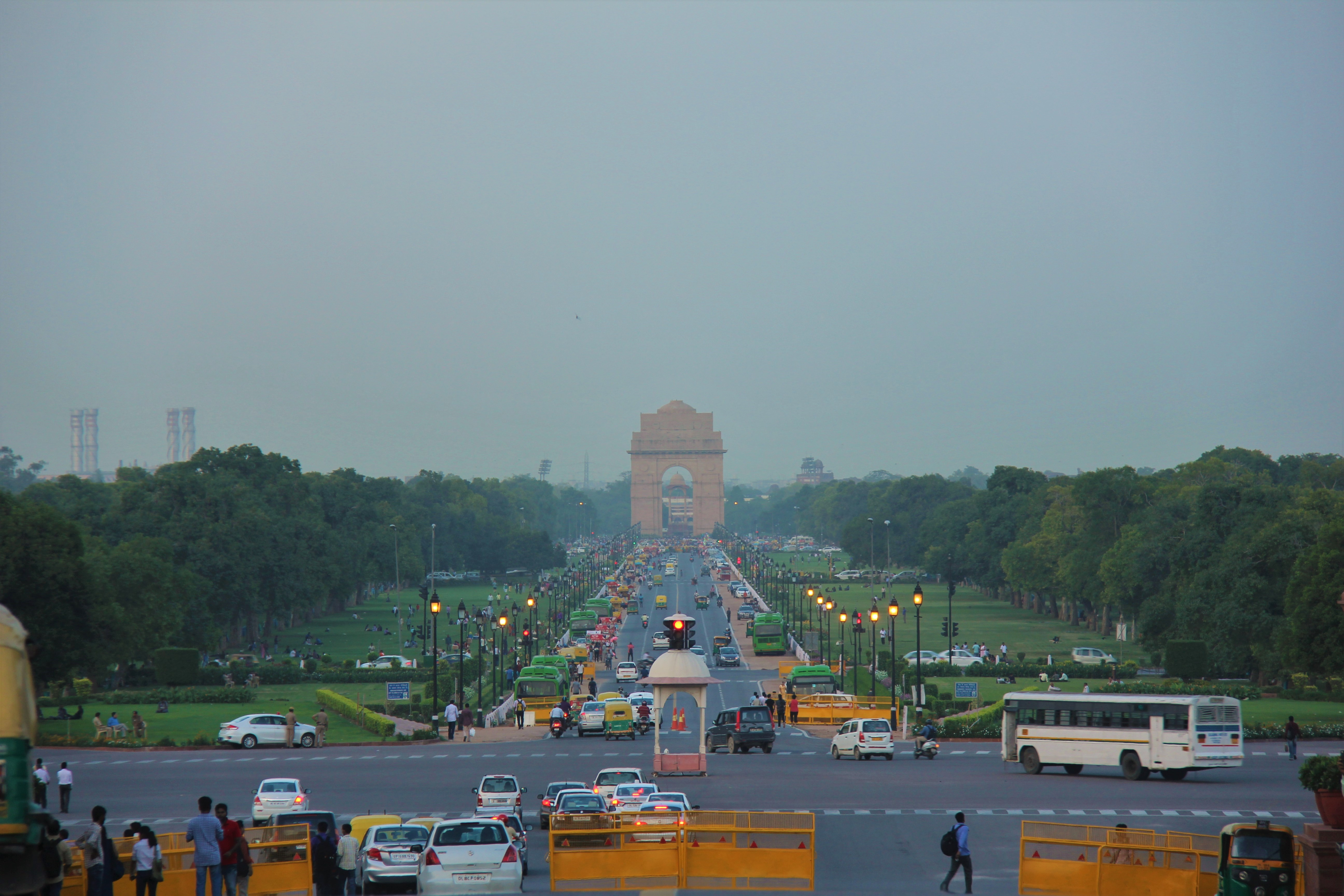 India Gate as viewed from Raisina Hill, Rajpath, New Delhi